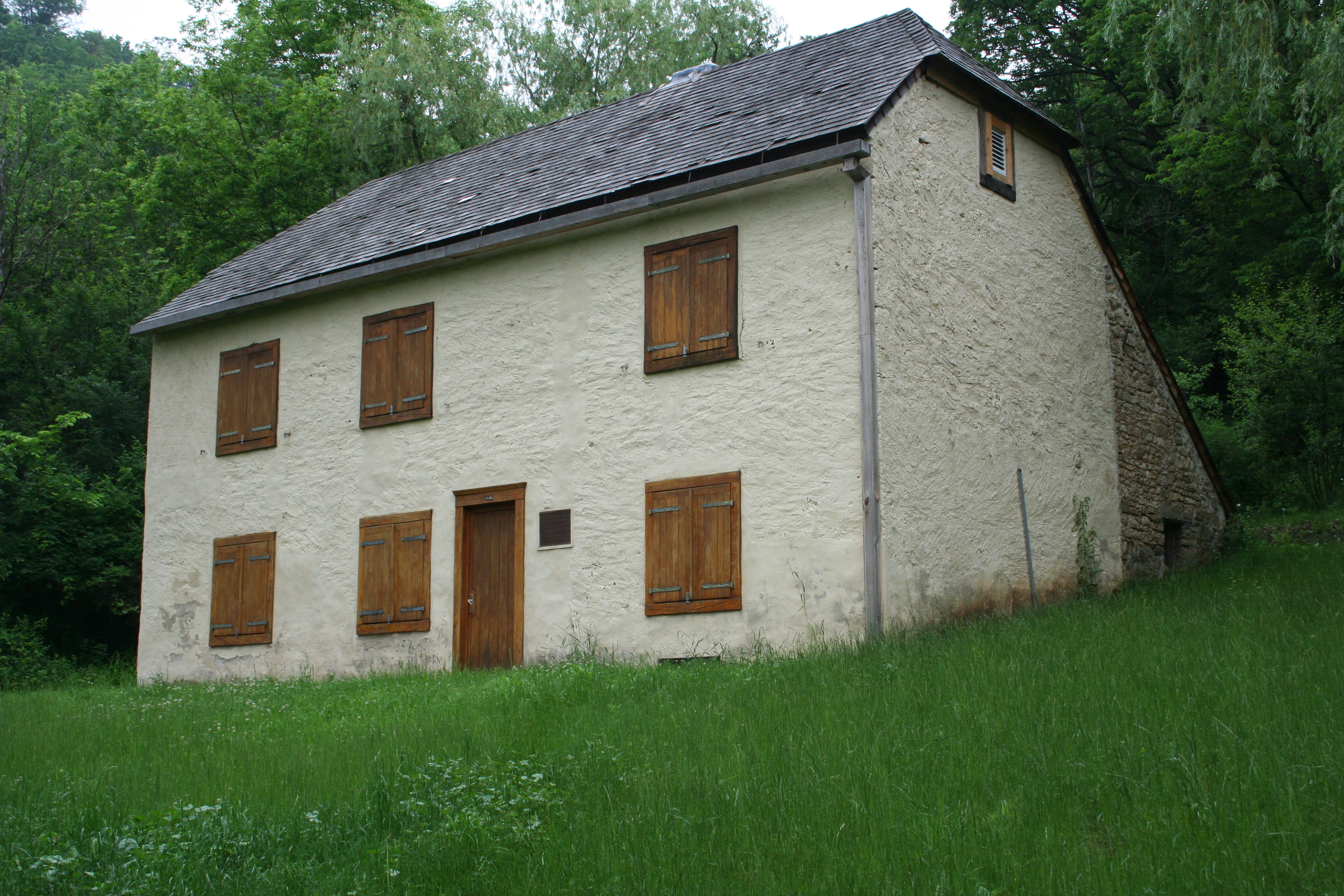 The historic Nicholas Marnach House in the Whitewater Wildlife Management Area near Elba, Winona County, Minnesota